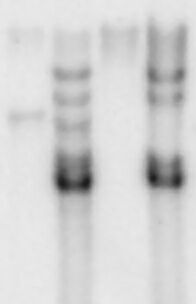 Southern Blot, Autoradiogram analysis